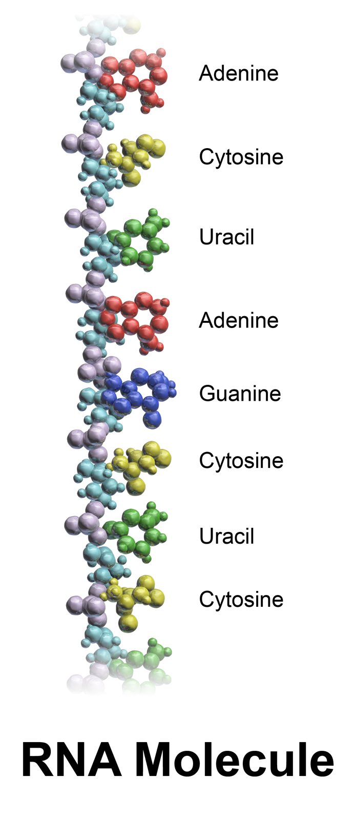 RNA. See a related animation of this medical topic.